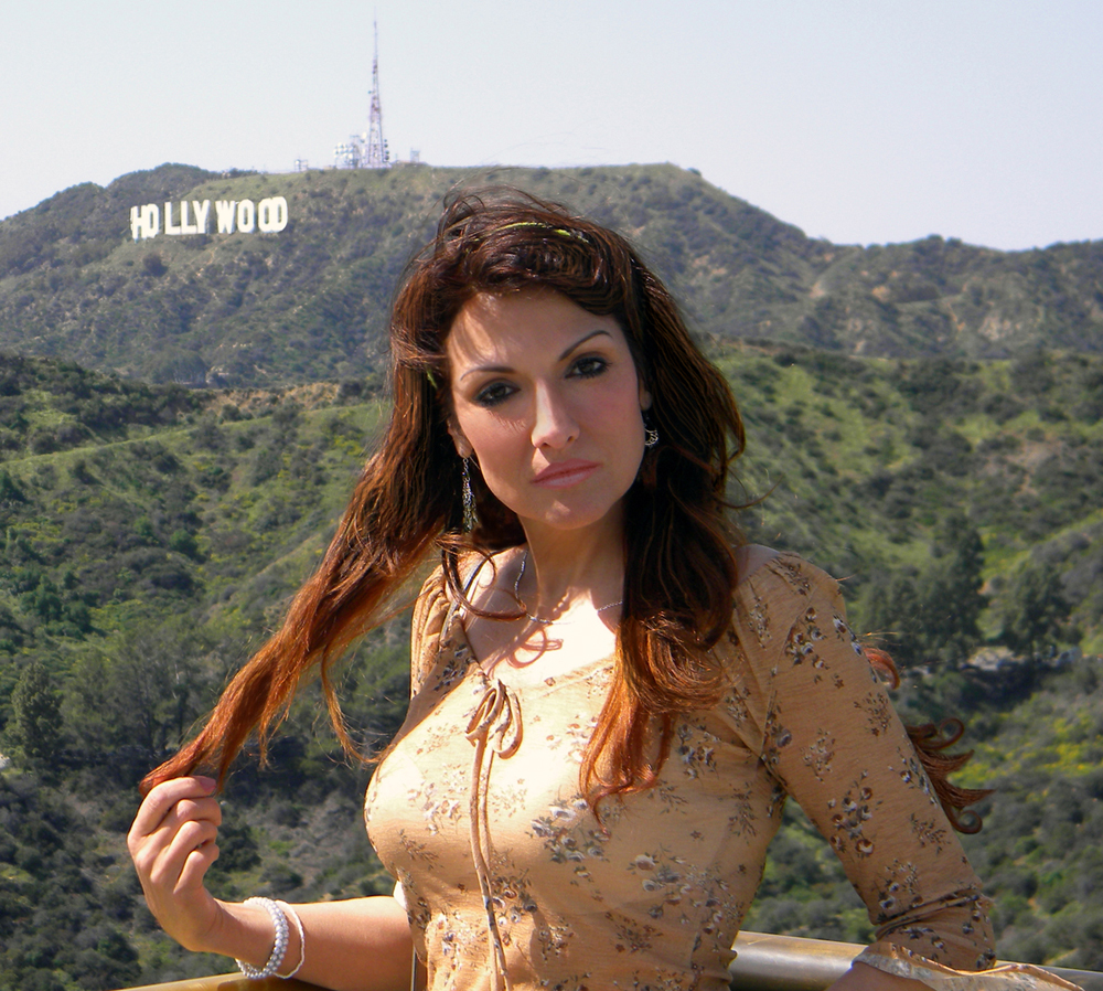 Tina Louise Thomas, Hollywood, CA 2010